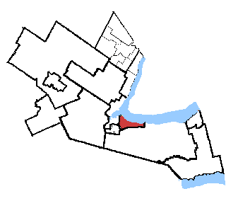 Map of the Hamilton East—Stoney Creek electoral district. Based on Earl Andrew's maps, created by SimonP.